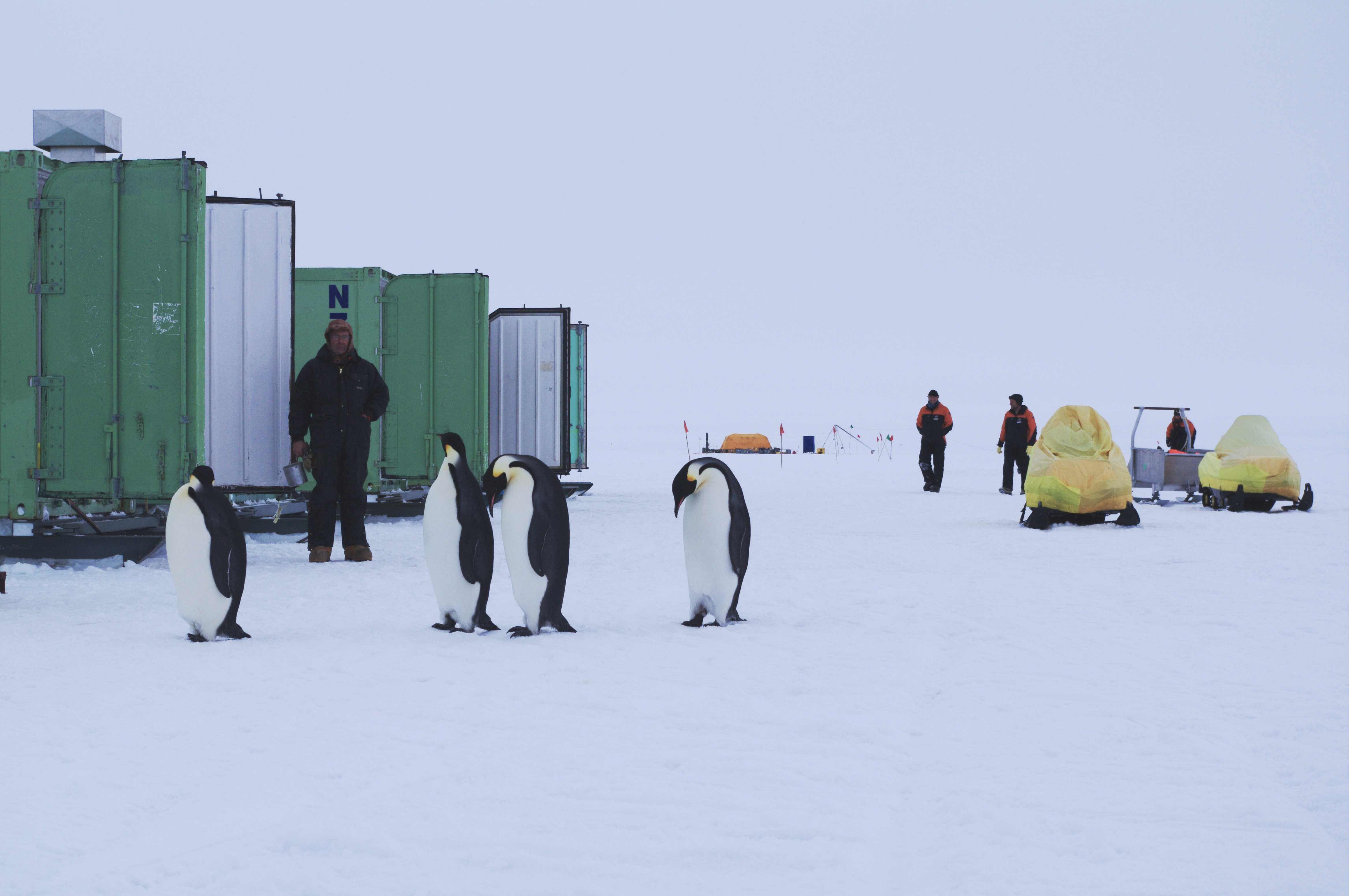 Emperor penguins and Tim Haskell at Camp Haskell north of Erebus Galcier Tongue in 2010.